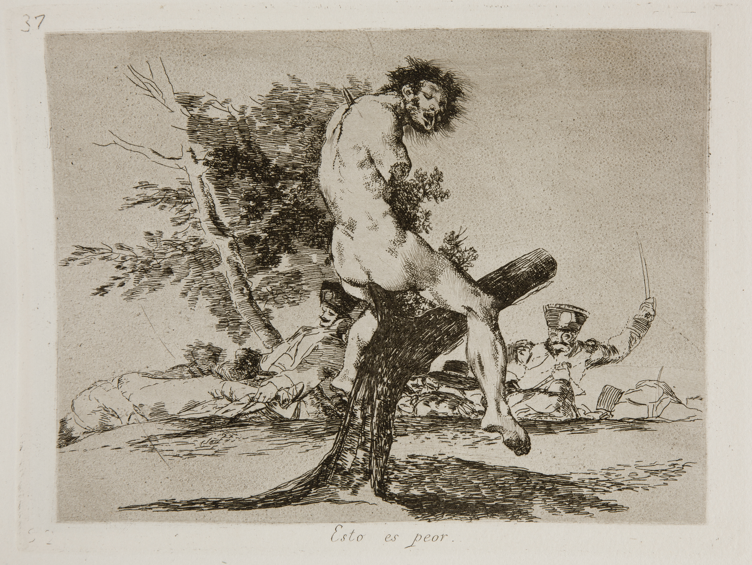 Los desastres de la guerra, plate No. 37, (1st edition, Madrid: Real Academia de Bellas Artes de San Fernando, 1863)